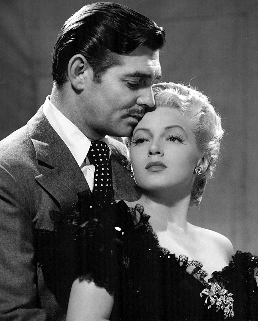 Original publicity photo of Clark Gable and Lana Turner for film Honky Tonk